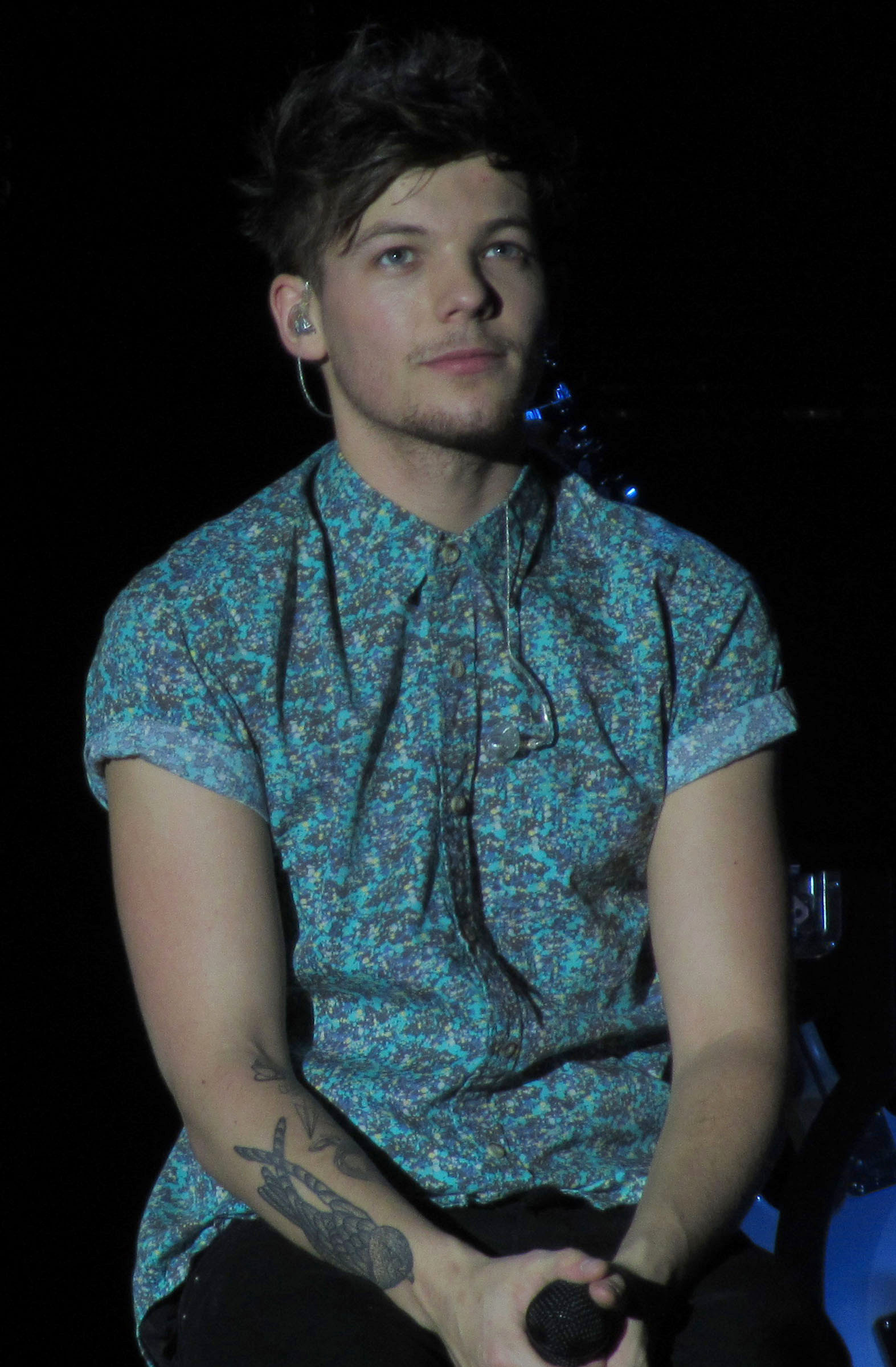 Louis Tomlinson at Scottish Exhibition and Conference Centre (SECC), Clyde Auditorium, Glasgow